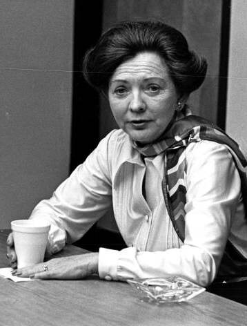 1 photo print - b&w - 8 x 10 in. The image number is, PR22166.